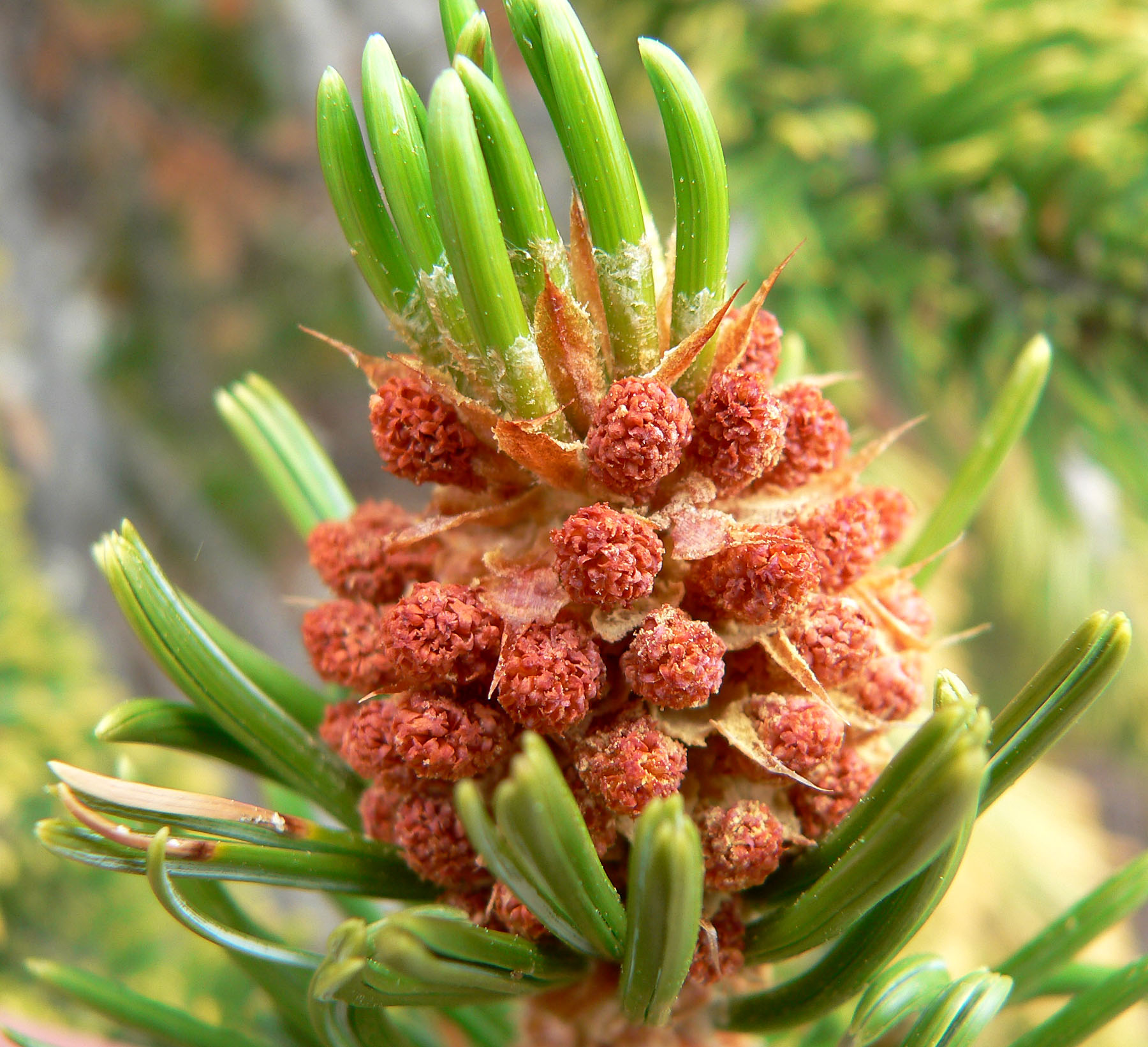 Pinus longaeva on the North Loop trail east of Mummy Mountain, Spring Mountains, southern Nevada (elev. about 2900 m)